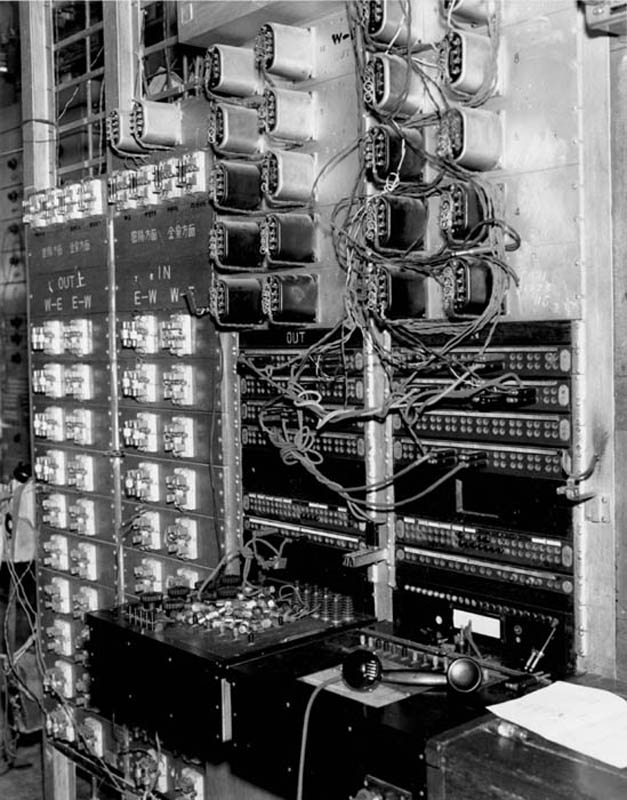 Equipment at Repeater Station, Taegu, Korea. Quad. Cable terminal on left, testboard on right and center. Signal Corps Photo #8A/FEC-50-5312